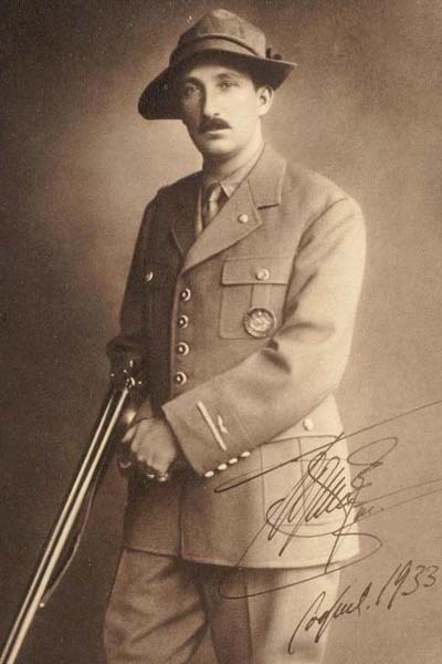 Boris III, Tsar of Bulgaria. A portrait from 1933 with a double-barreled sporting shotgun.